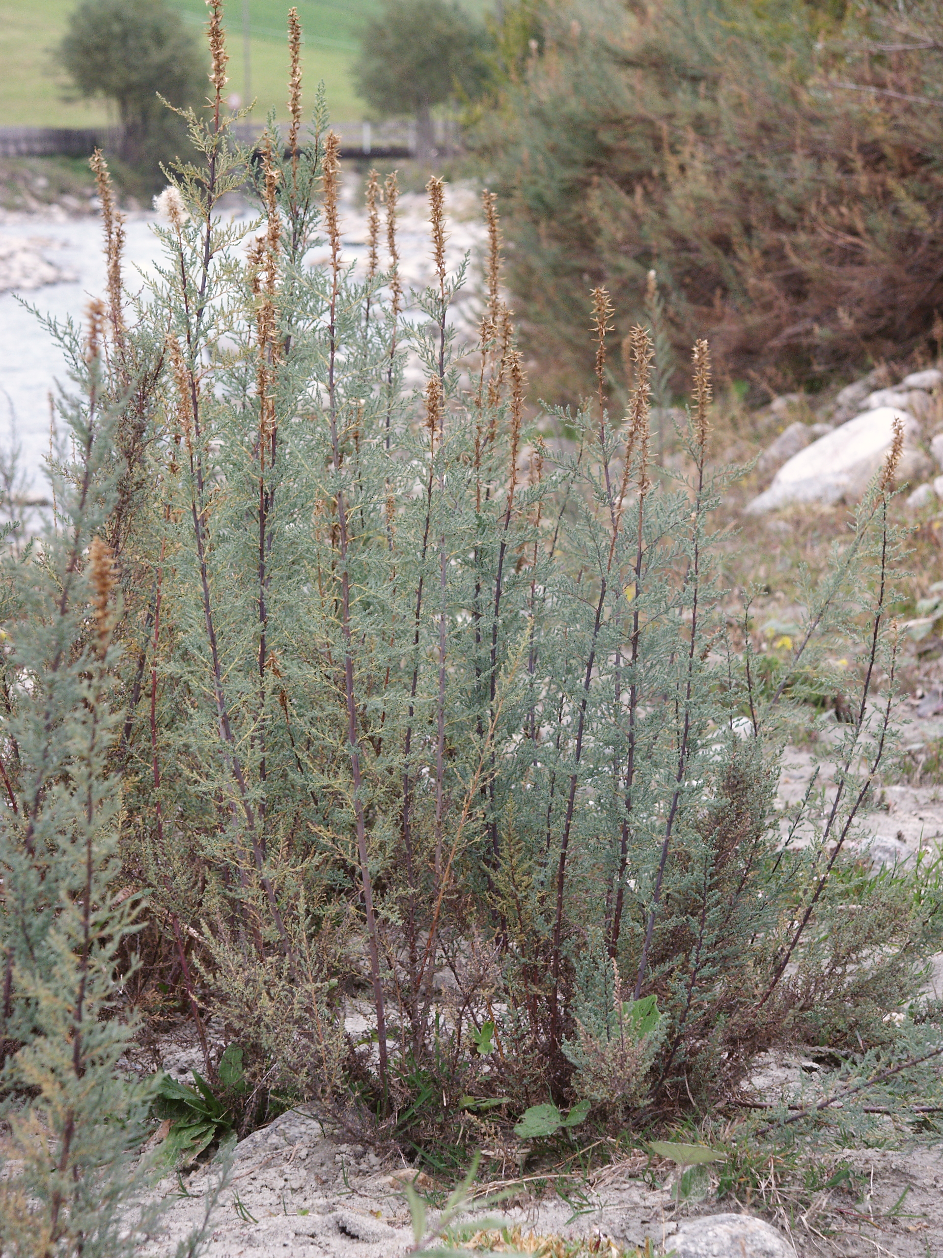 Myricaria germanica, South Tyrol, Italy